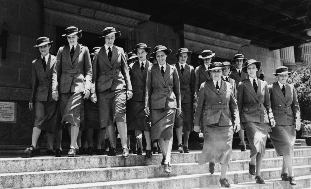 Nurses of the Second A.I.F. leaving the Brisbane City Hall, 1940. Queensland nurses attached to the Second A.I.F. made their first public appearance in uniform in Brisbane yesterday. They are shown leaving the City Hall after attending a civic farewell. [Description supplied with photograph] The nurses wear military uniform and are shown on the steps of the City Hall during World War II.